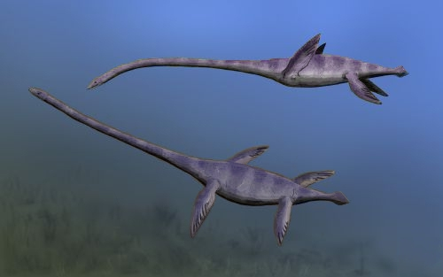 Elasmosaurus platyurus swimming with straight necks